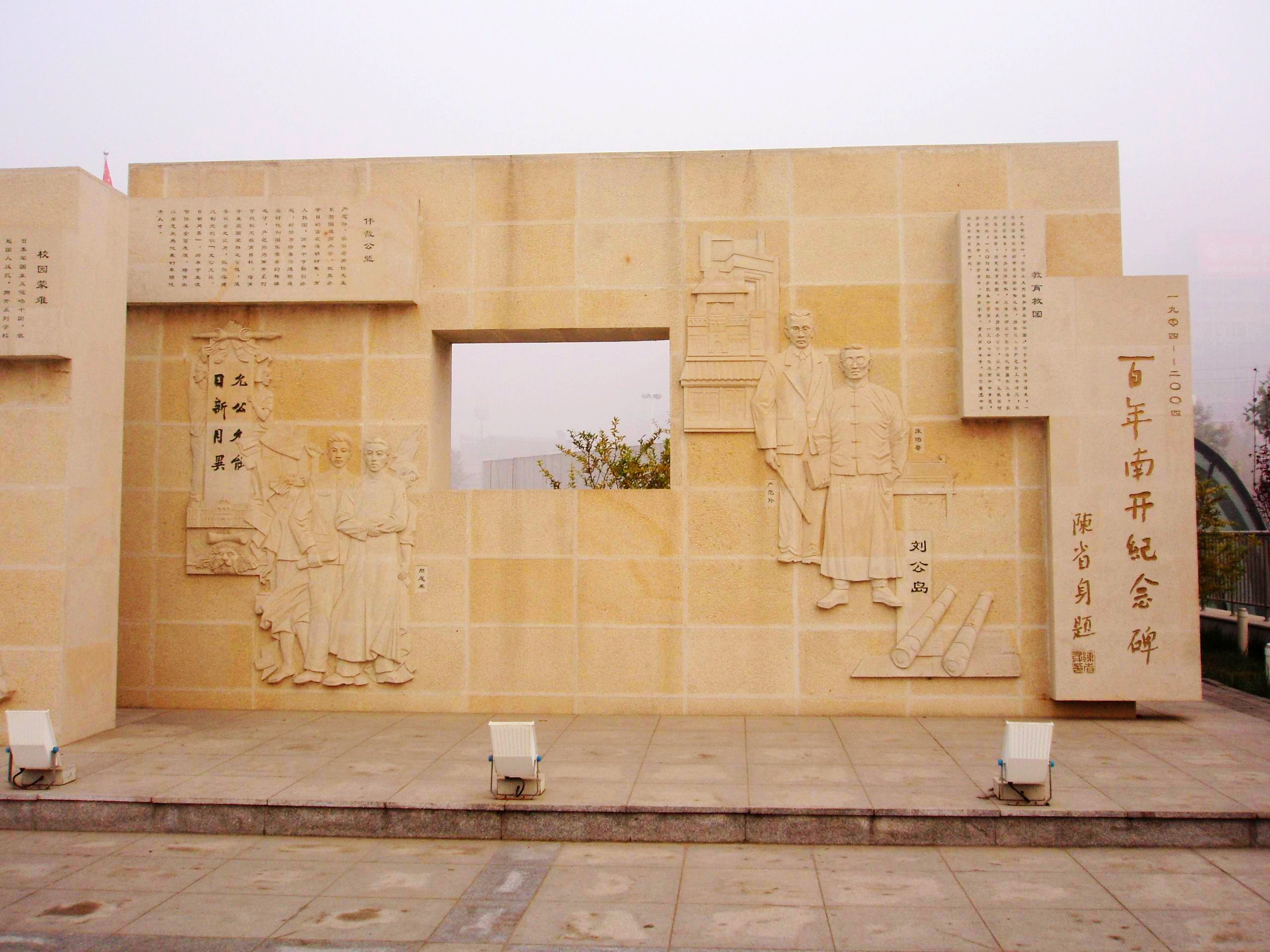 Mounment for hundred years celebrating of Nan Kai School in Tianjin